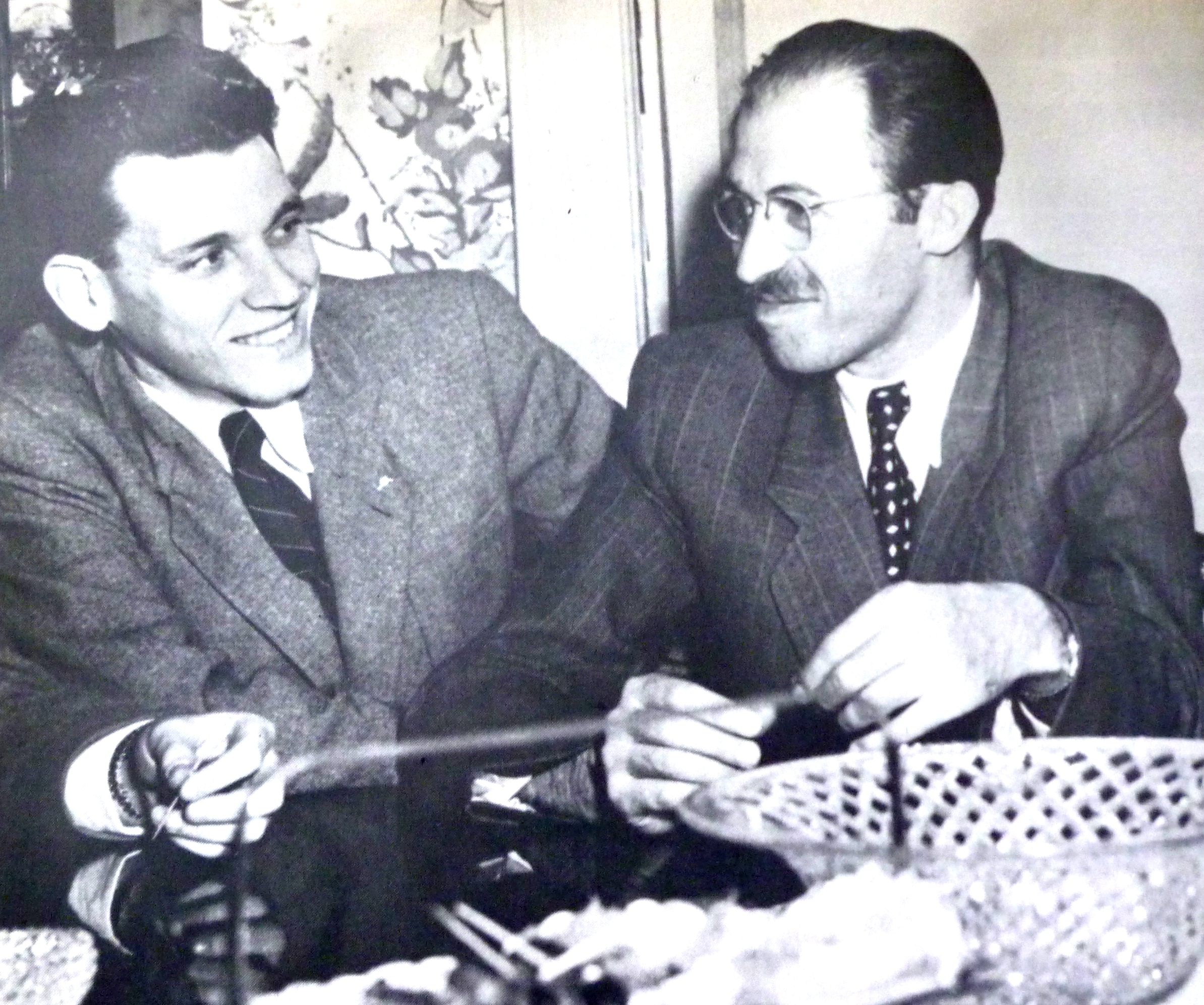 Mordechai Raanan, left, commander of Irgun Zvai Leumi forces in Jerusalem with Menachin Begin.